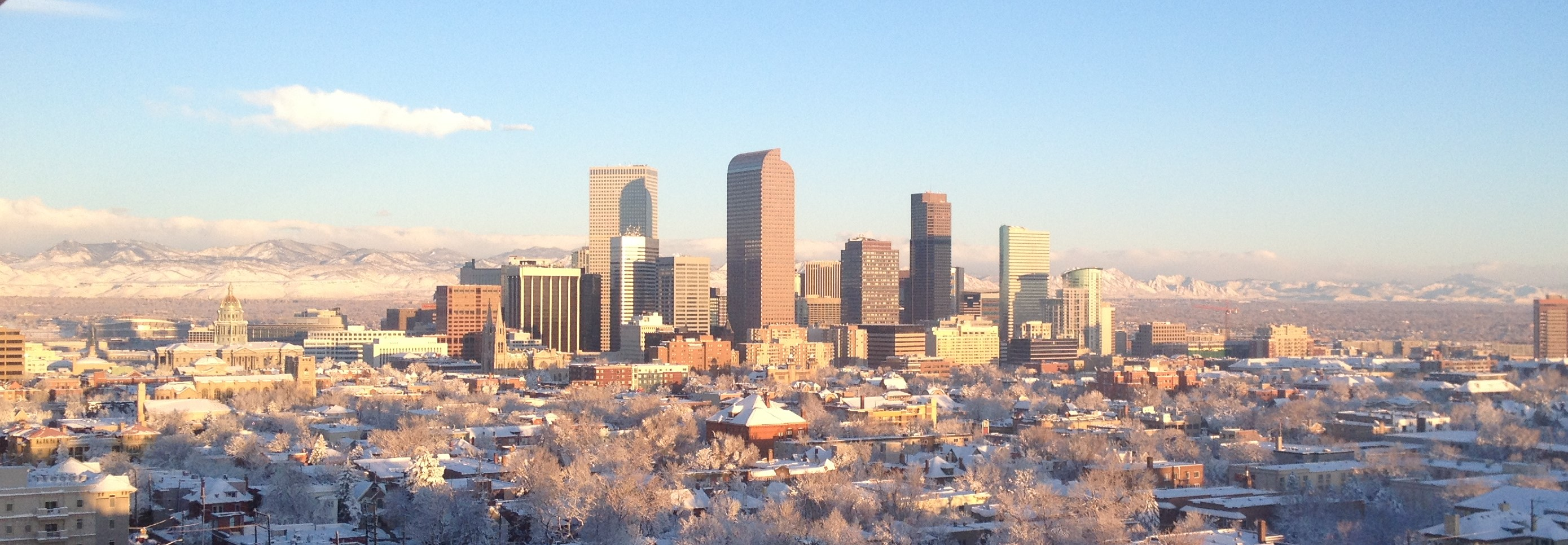 A view of Denver, CO in winter.